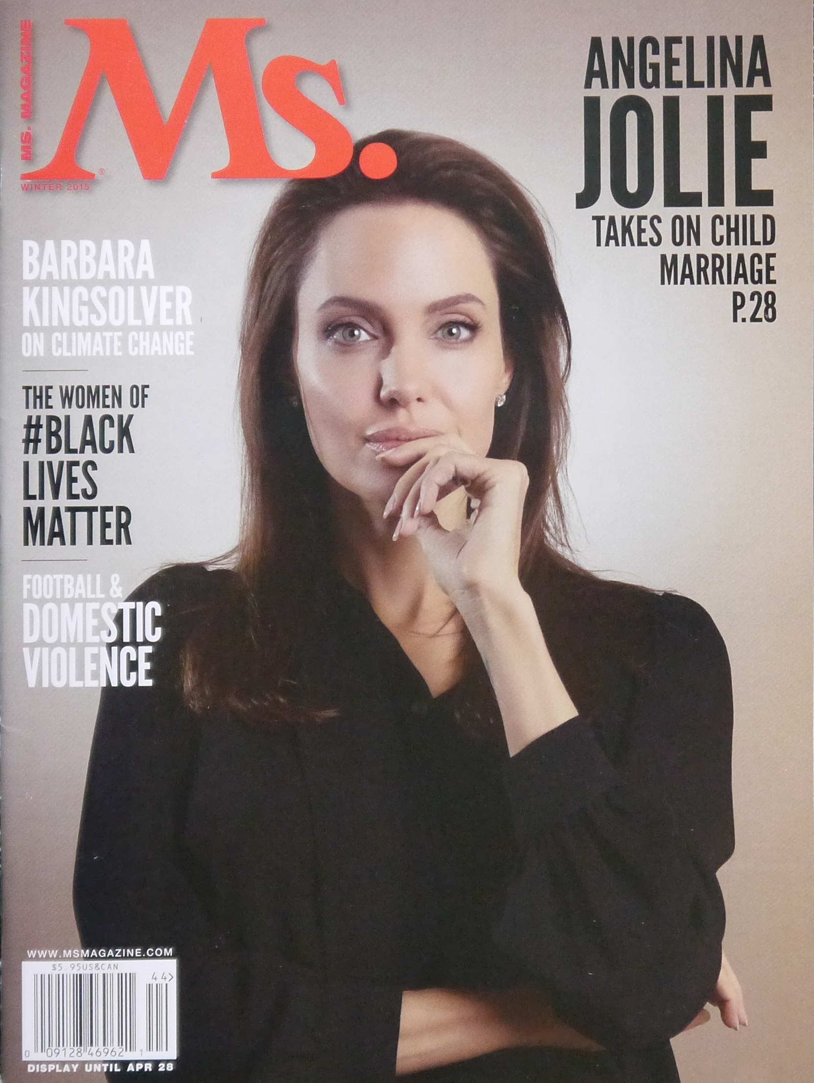 Ms. magazine, Winter 2015 with Angelina Jolie